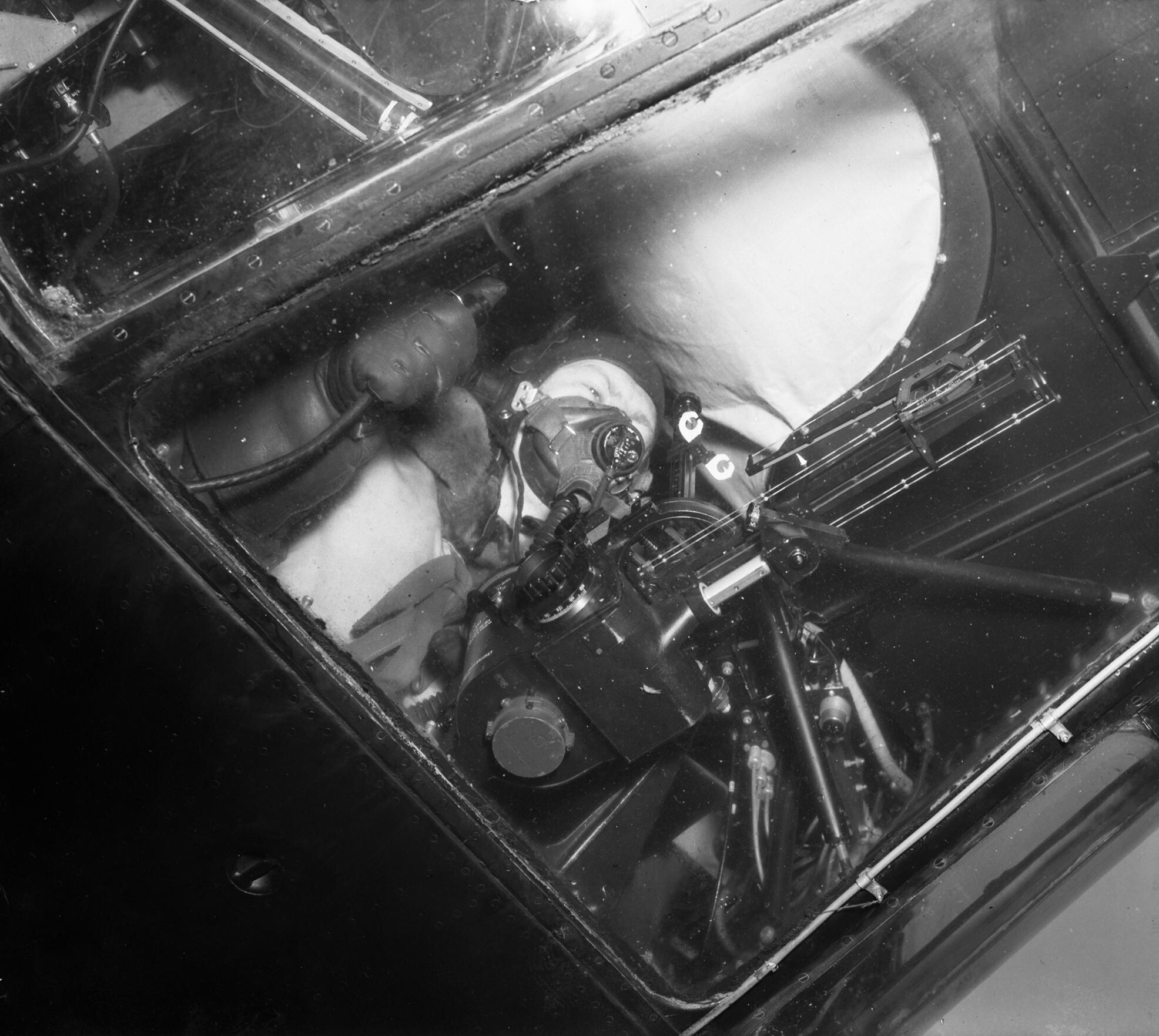 Royal Air Force Bomber Command, 1942-1945. Close-up of a bomb aimer operating a Mark IXA Course-setting Bombsight in the nose of a Short Stirling.